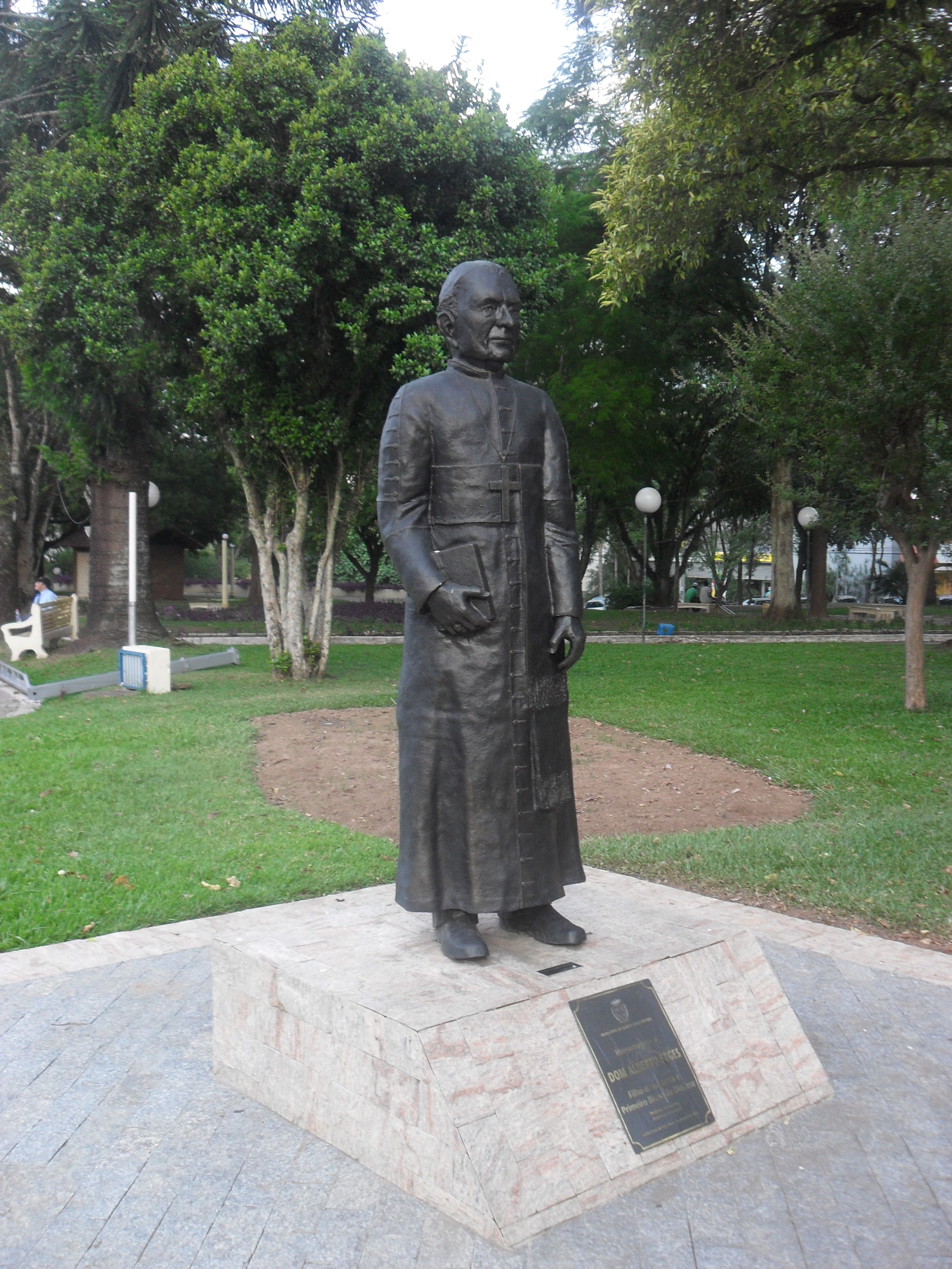 Alberto Etges